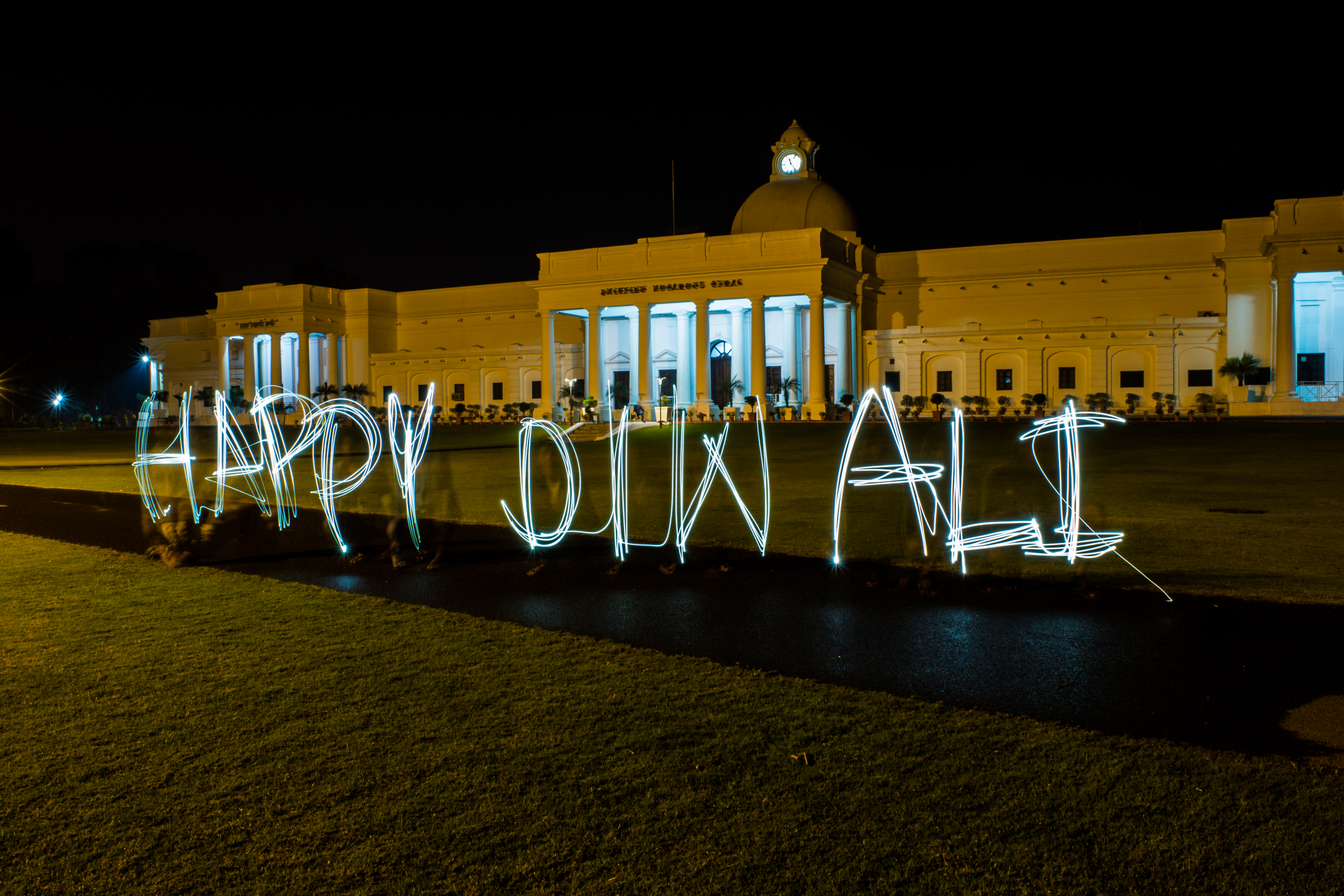 Light painting infront of mainbuilding at IIT Roorkee